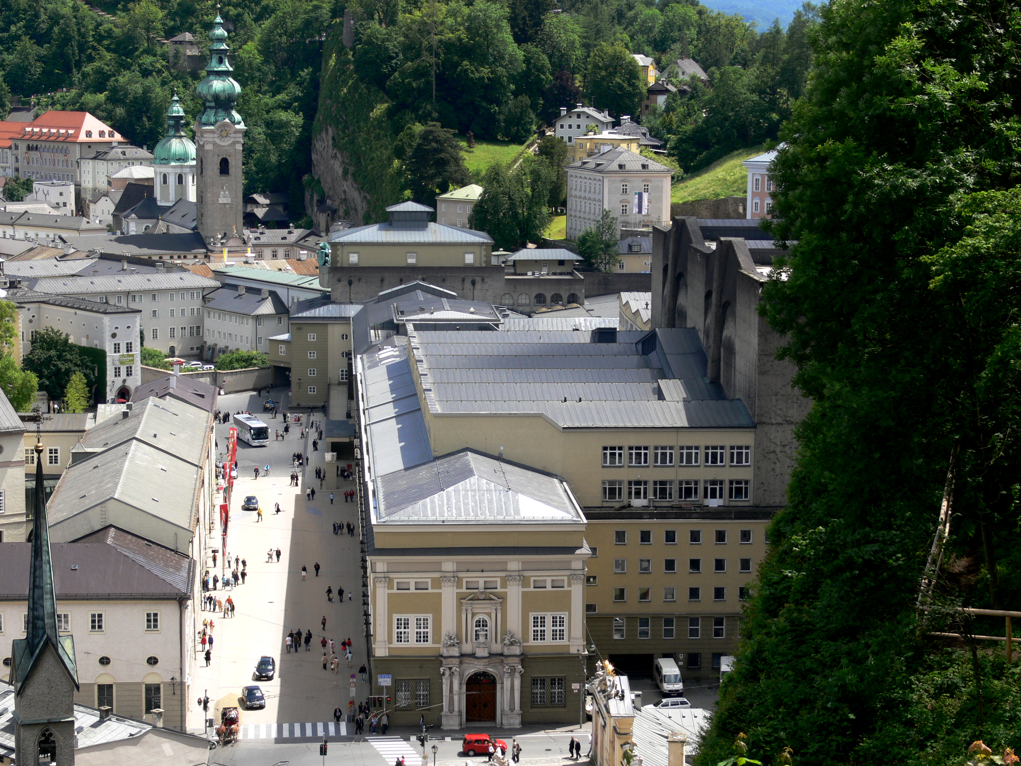 Austria, Salzburg, Großes Festspielhaus